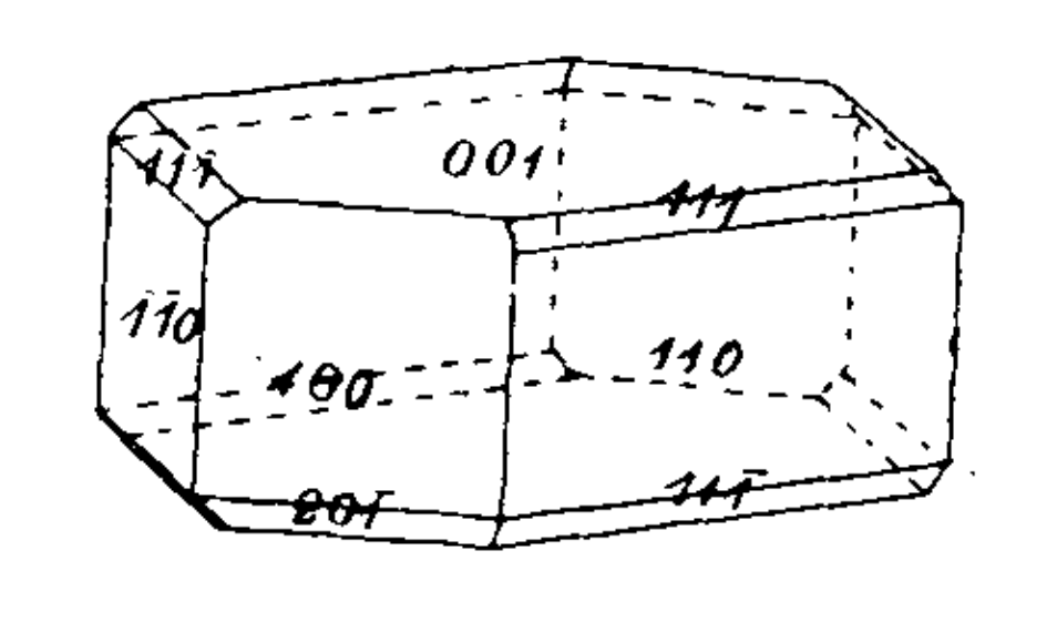 diagram of an monoclinic crystal of Cerous nitrate